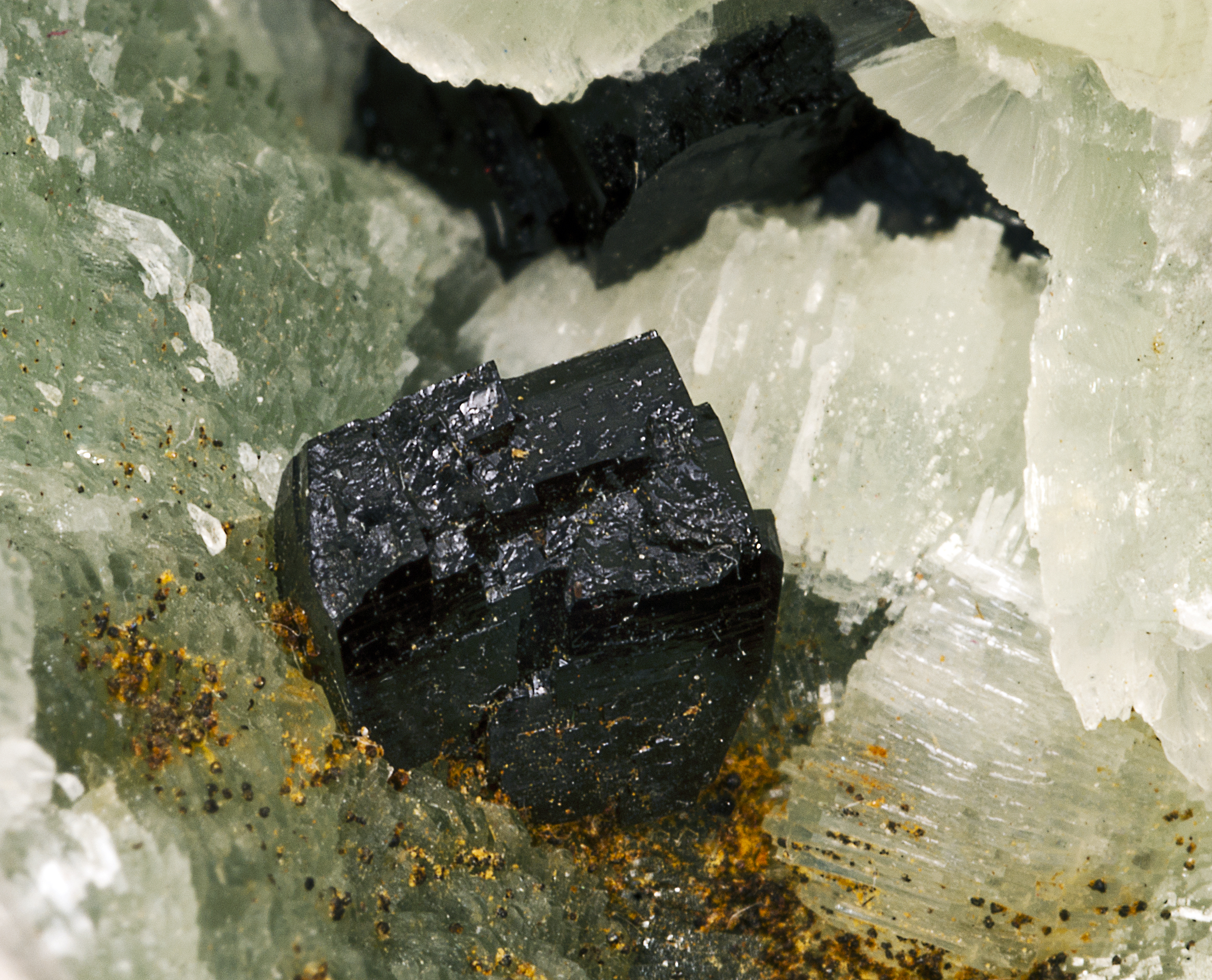 Babingtonite, Prehnite Locality: Lane & Sons Traprock quarries, Westfield, Hampden County, Massachusetts, USA Size of babingtonite crytal: 5,3 mm.